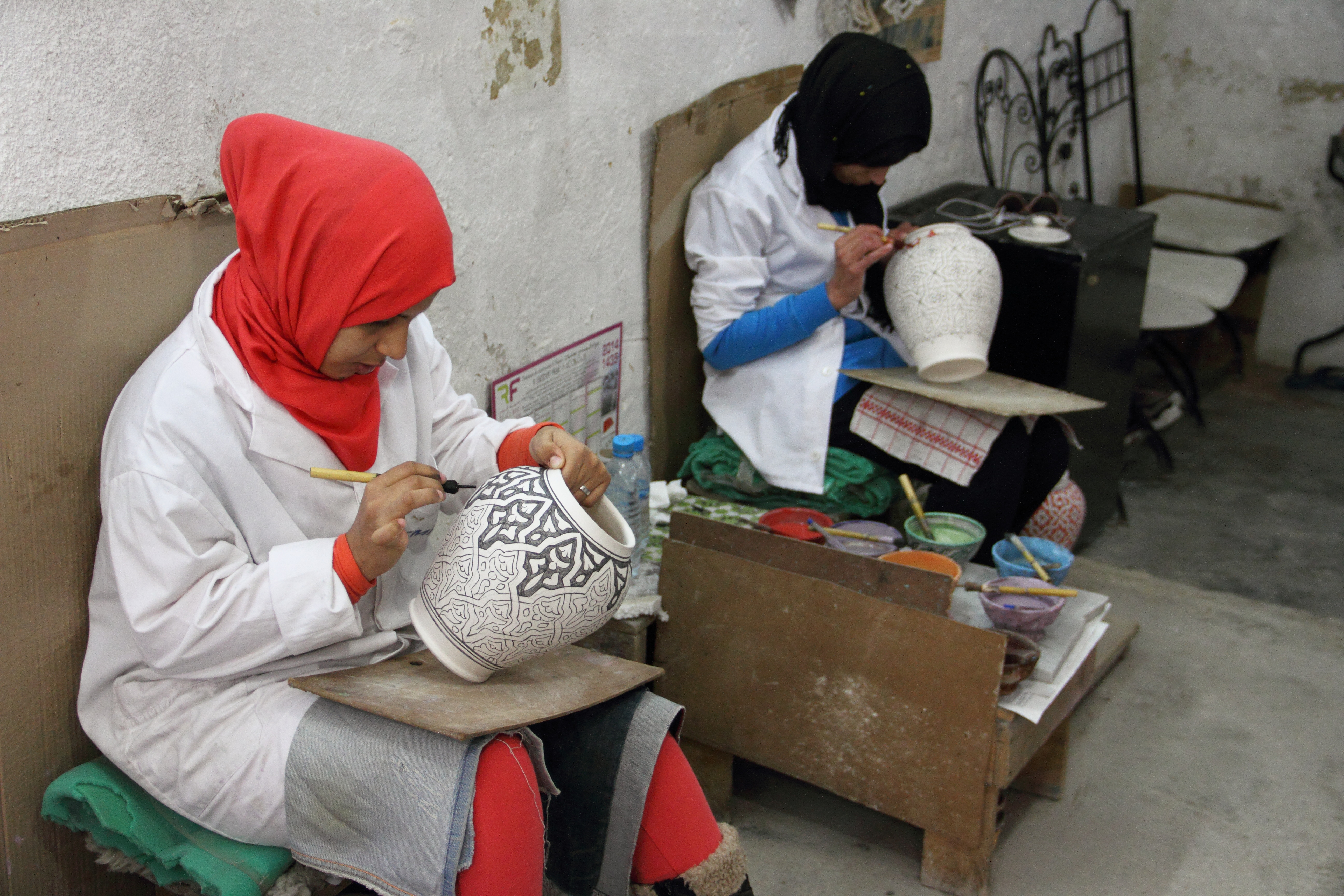 Craftsmen in a pottery in Fès, Morocco.